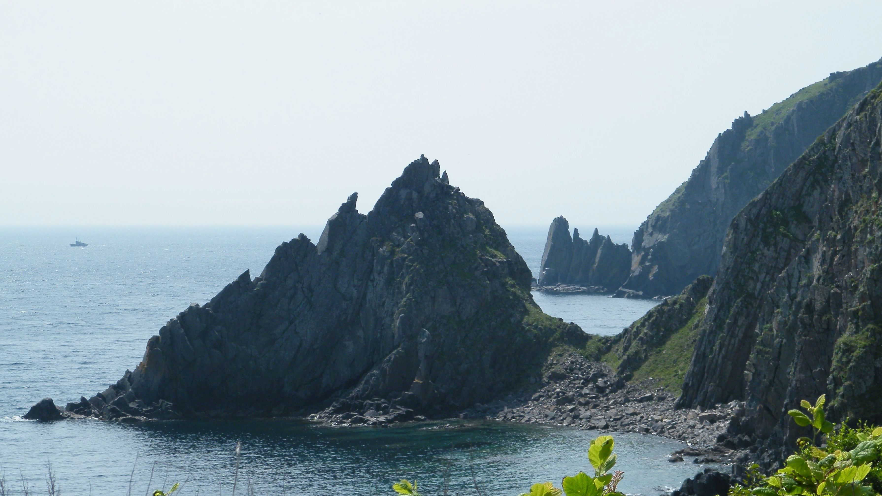 Японское море мыс Четырех Скал